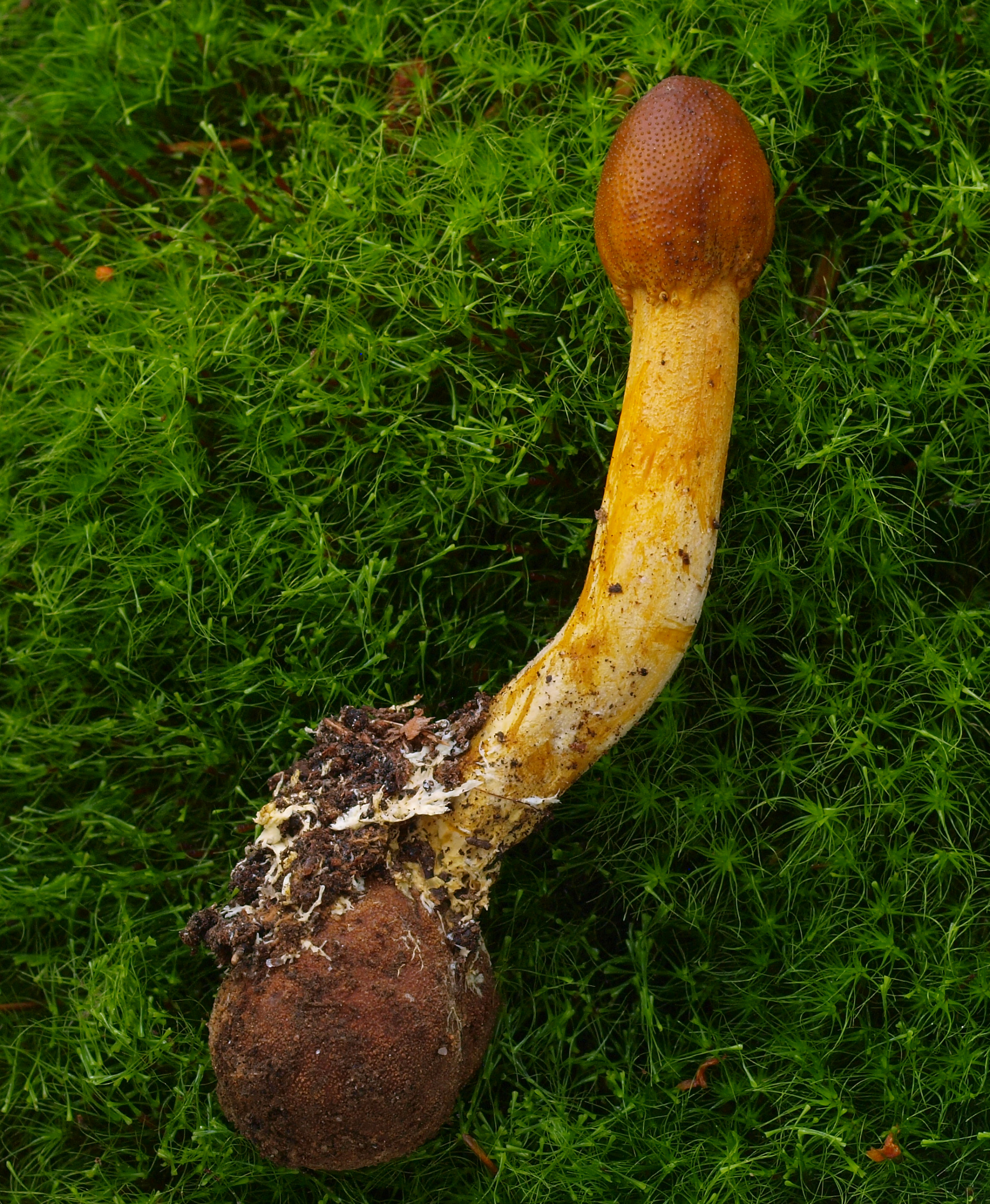 Drumstick Truffleclub (Elaphocordyceps capitata)